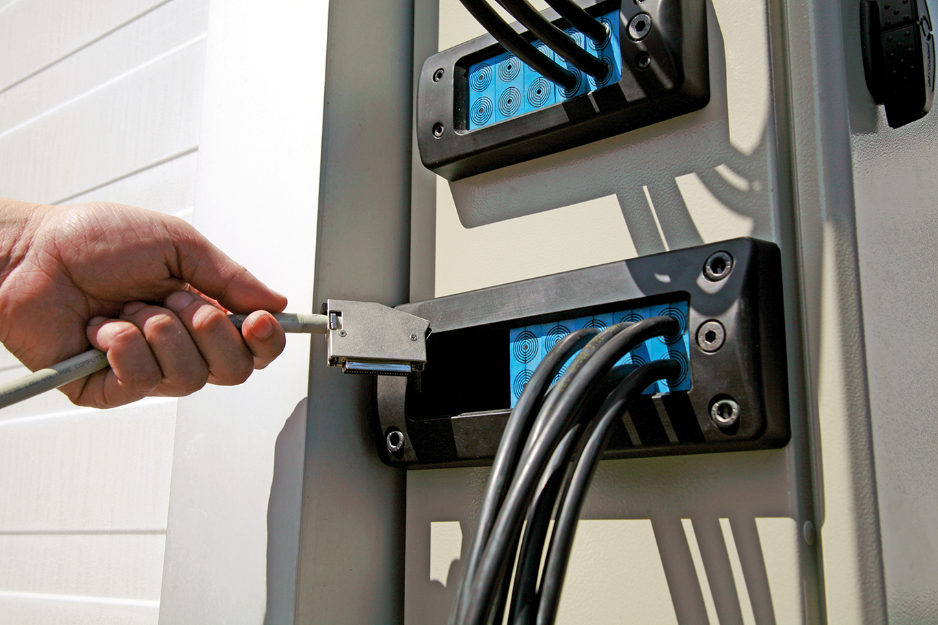 A Roxtec cable sealing solution or cable transit system